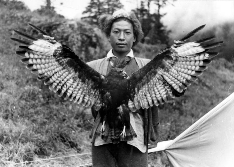 Tibetan hunter holding a Steppe Buzzard (Buteo buteo vulpinus), a subspecies of the Common Buzzard, that was injured by a shot. Buteo sp.